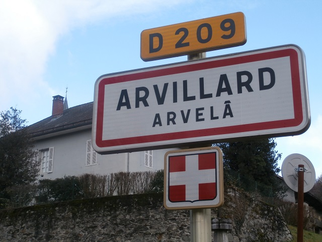 Bilingual place-name (French, Arpitan) in Savoy.